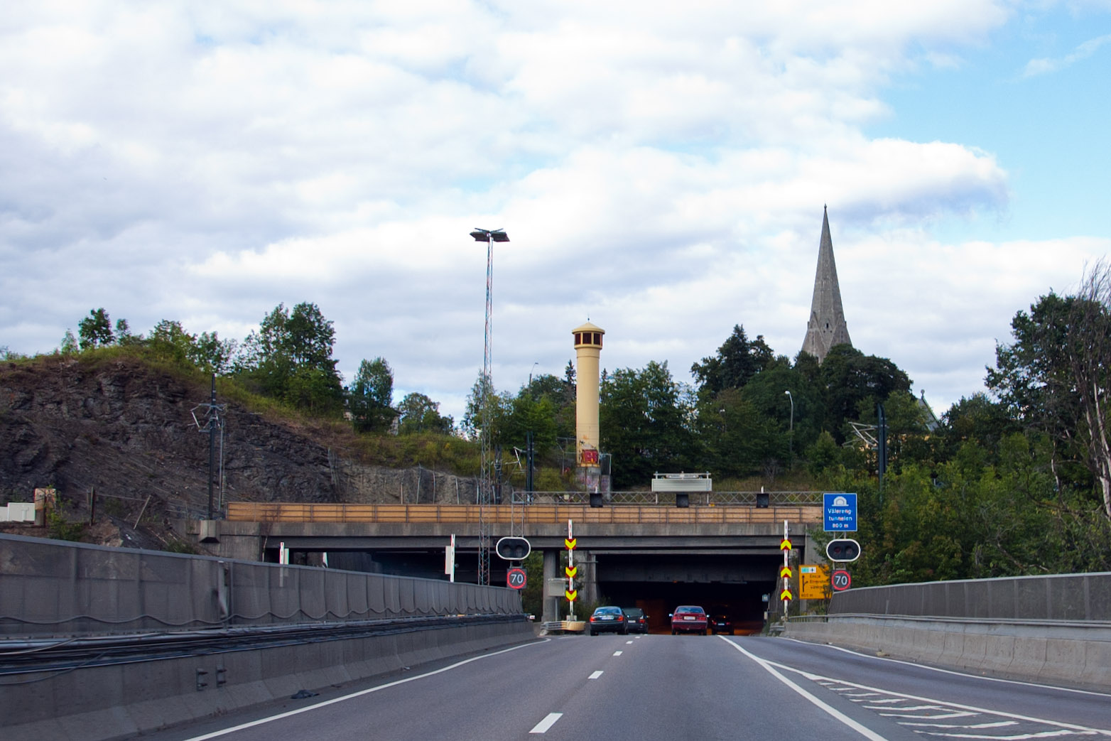 Vålerengtunnelen, a road tunnel on national road 190 in Oslo, Norway